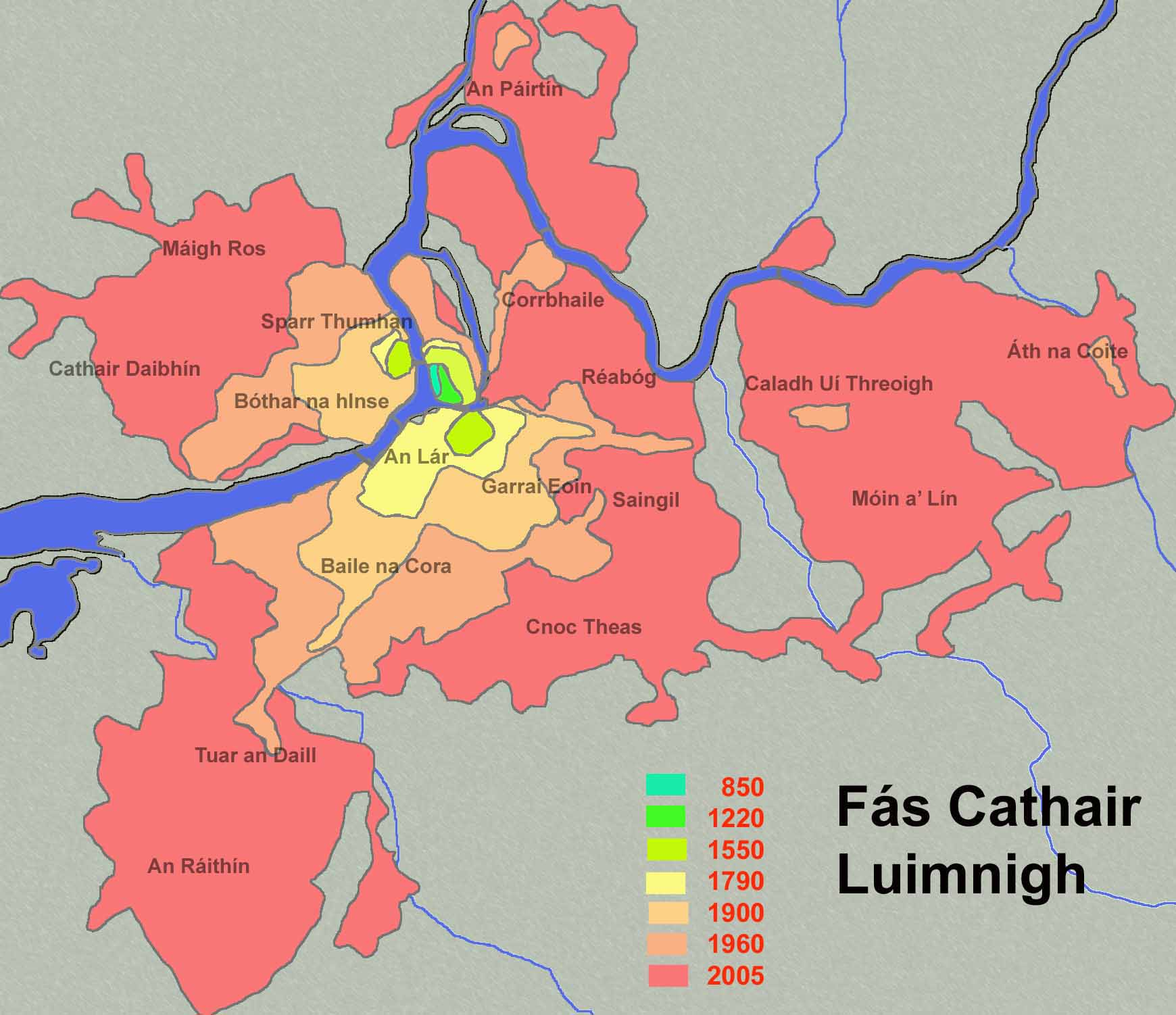 Fás cathair Luimnigh